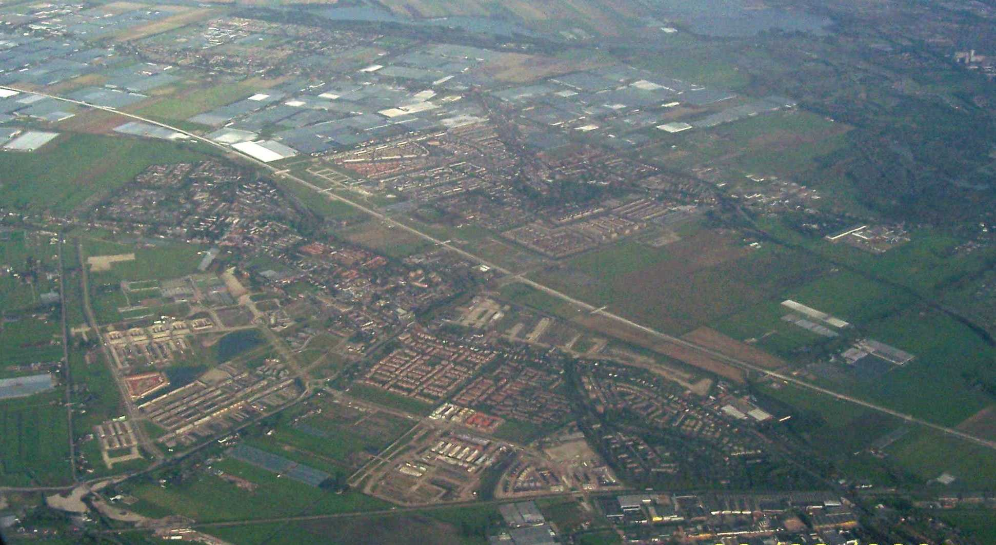 Aerial view of Berkel-en-Roderijs and Bergschenhoek, Bleiswijk visible in the distance, the Netherlands.